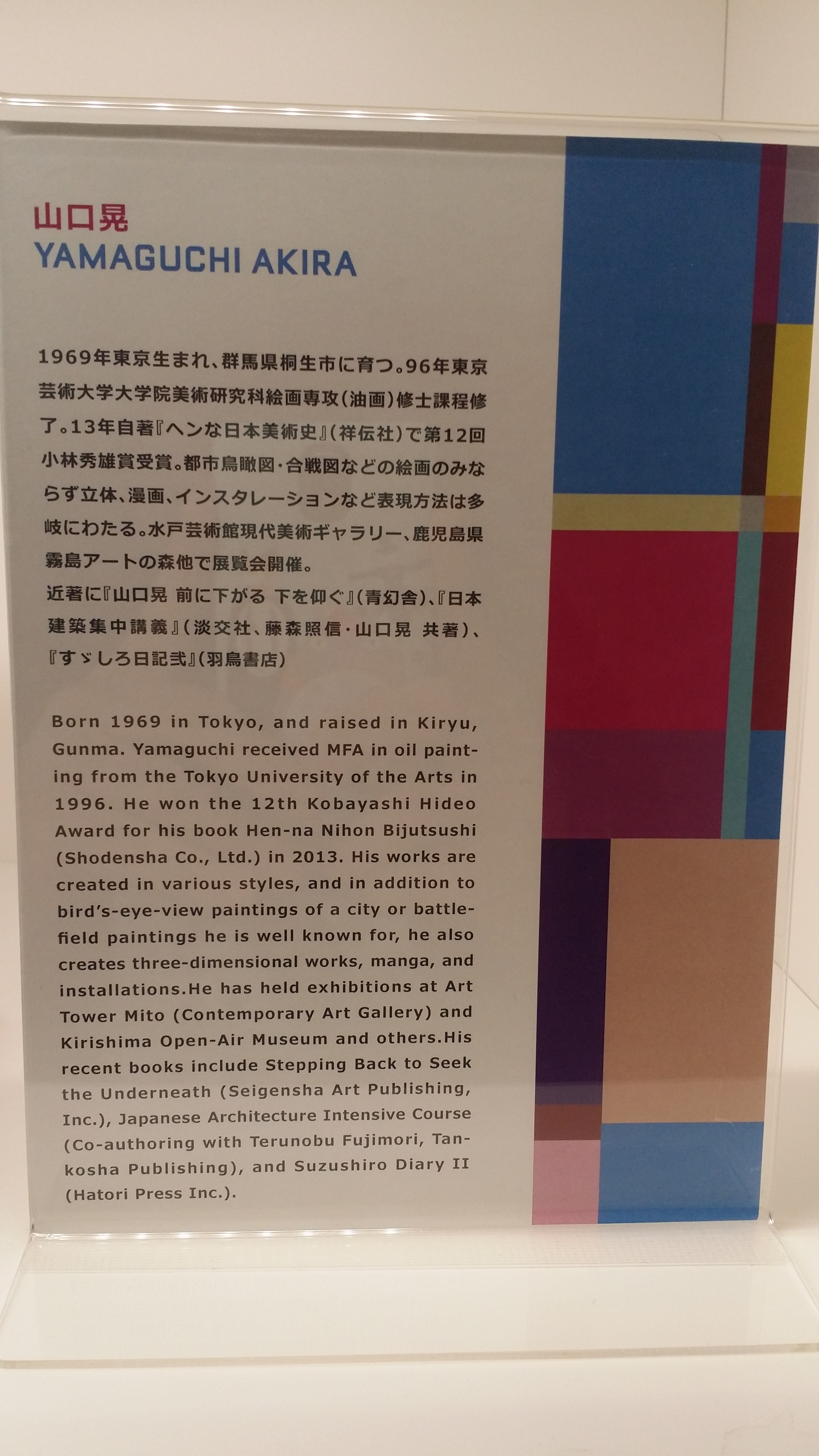 Yamaguchi Akira Exibition Summary